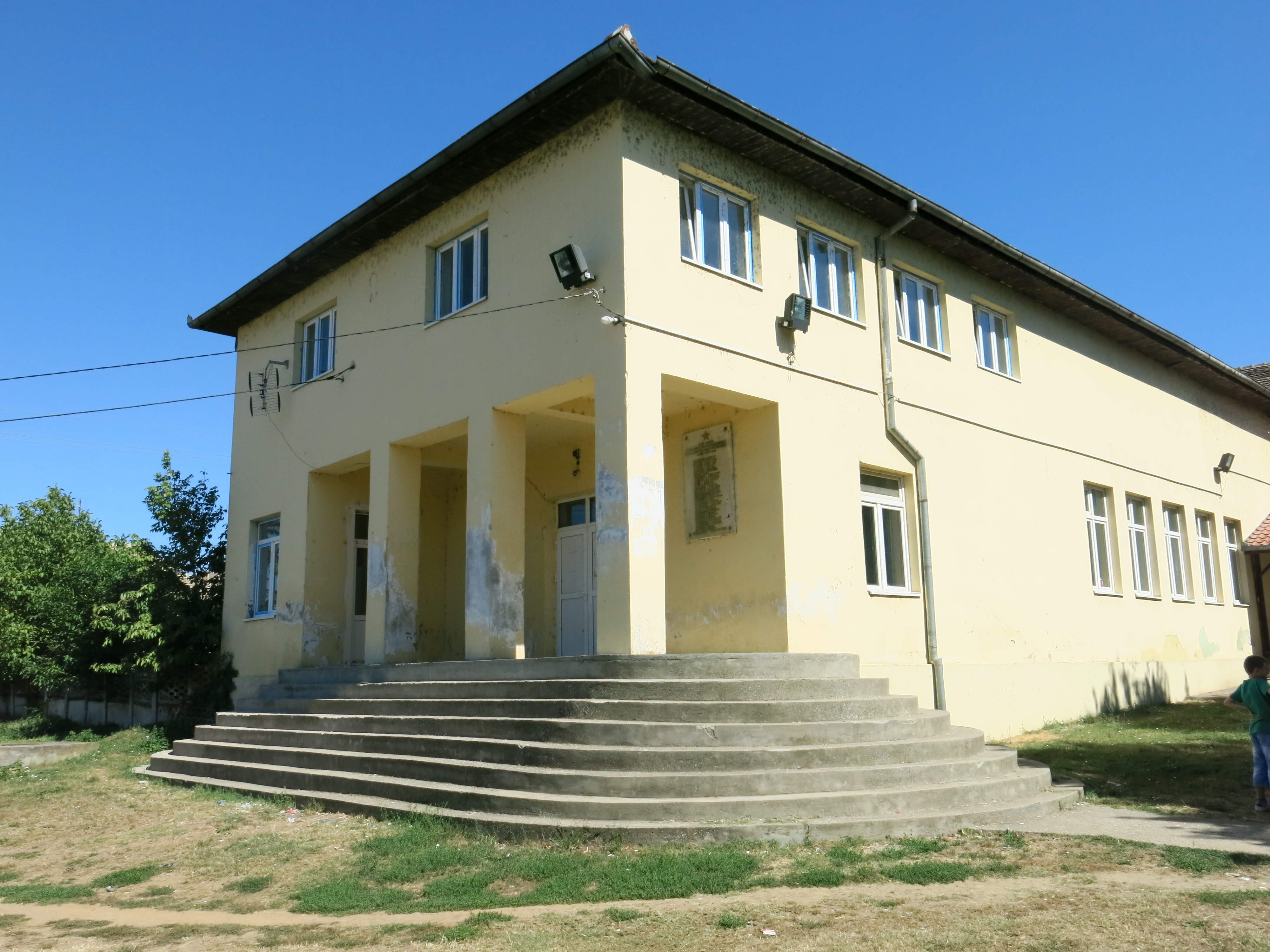 Vodanj, Elementary school Vožd Karađorđe and post office